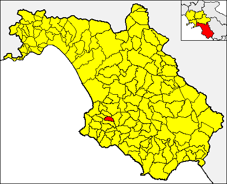 Locator map of the municipality of Rutino (red) within the Province of Salerno